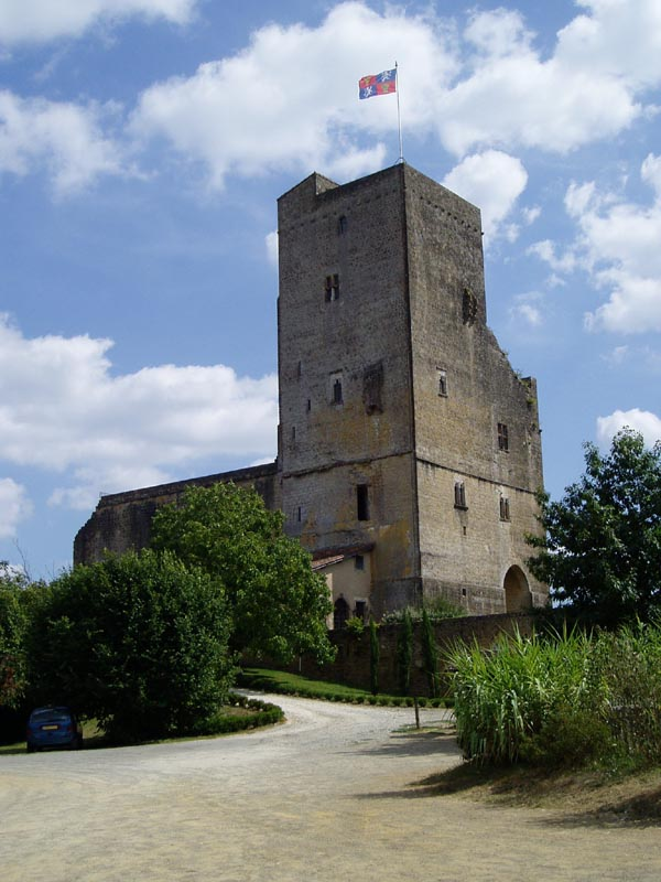 La Tour de Termes d'Armagnac. The tower at Termes d'Armagnac. Near Riscles and Plaisance du Gers (Midi-Pyrénées, France). Built at the end of XIIIe century, it is a Middle-age castle. Only the mighty tower remains intact.